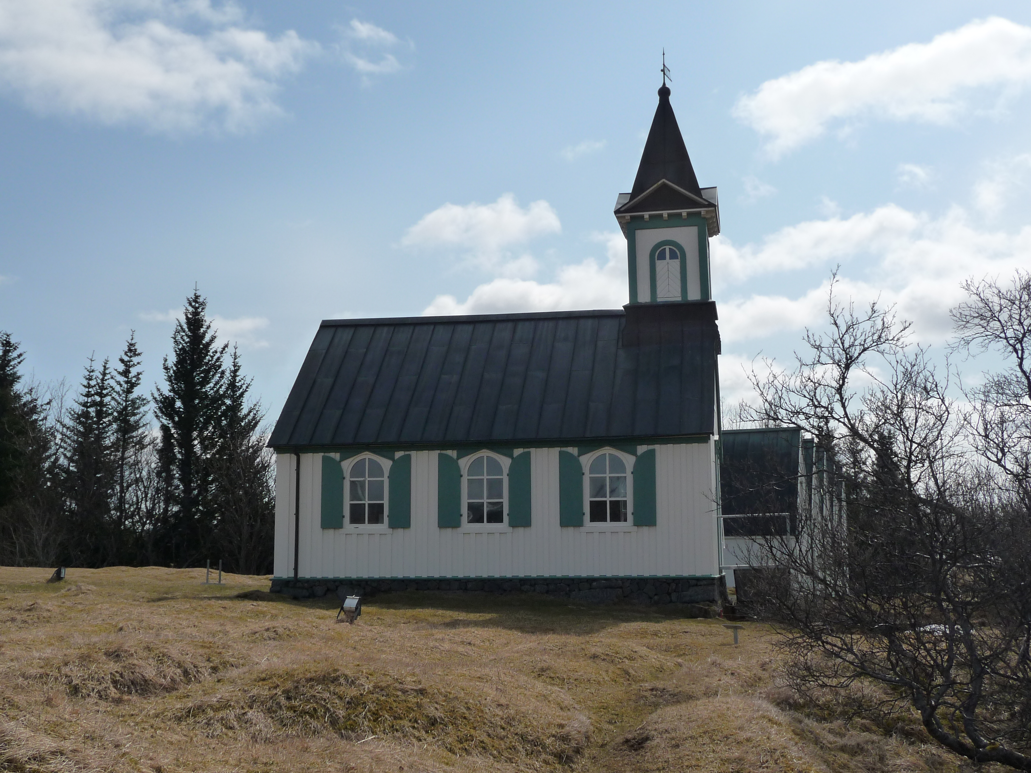 Þingvallakirkja is the church in the Þingvellir national park in Iceland.